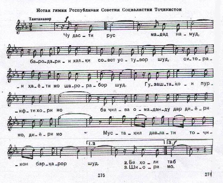 The sheet music of the anthem of the Tajik SSR